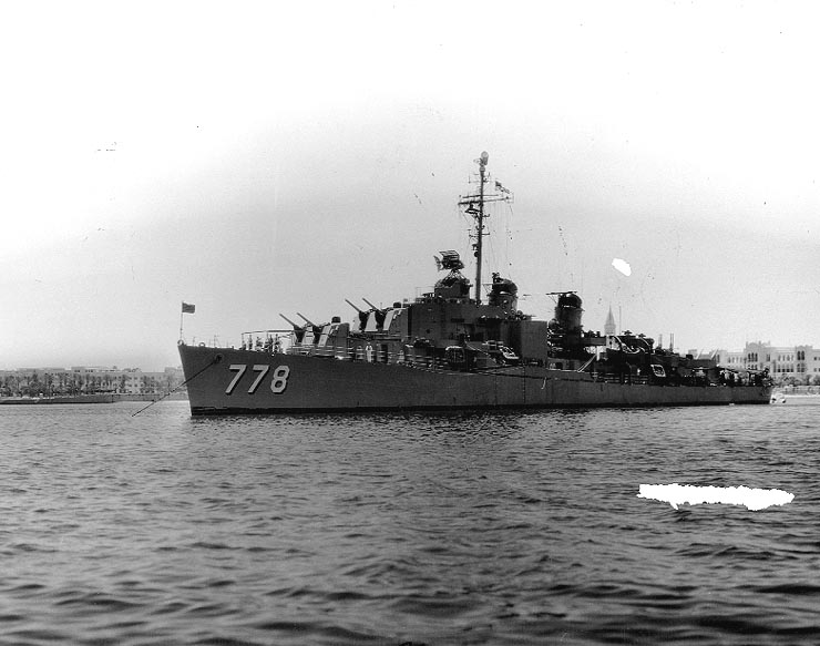 The U.S. Navy destroyer USS Massey (DD-778) anchored off Tripoli, Libya, which she visited in company with the aircraft carrier USS Kearsarge (CV-33) in late June 1948.